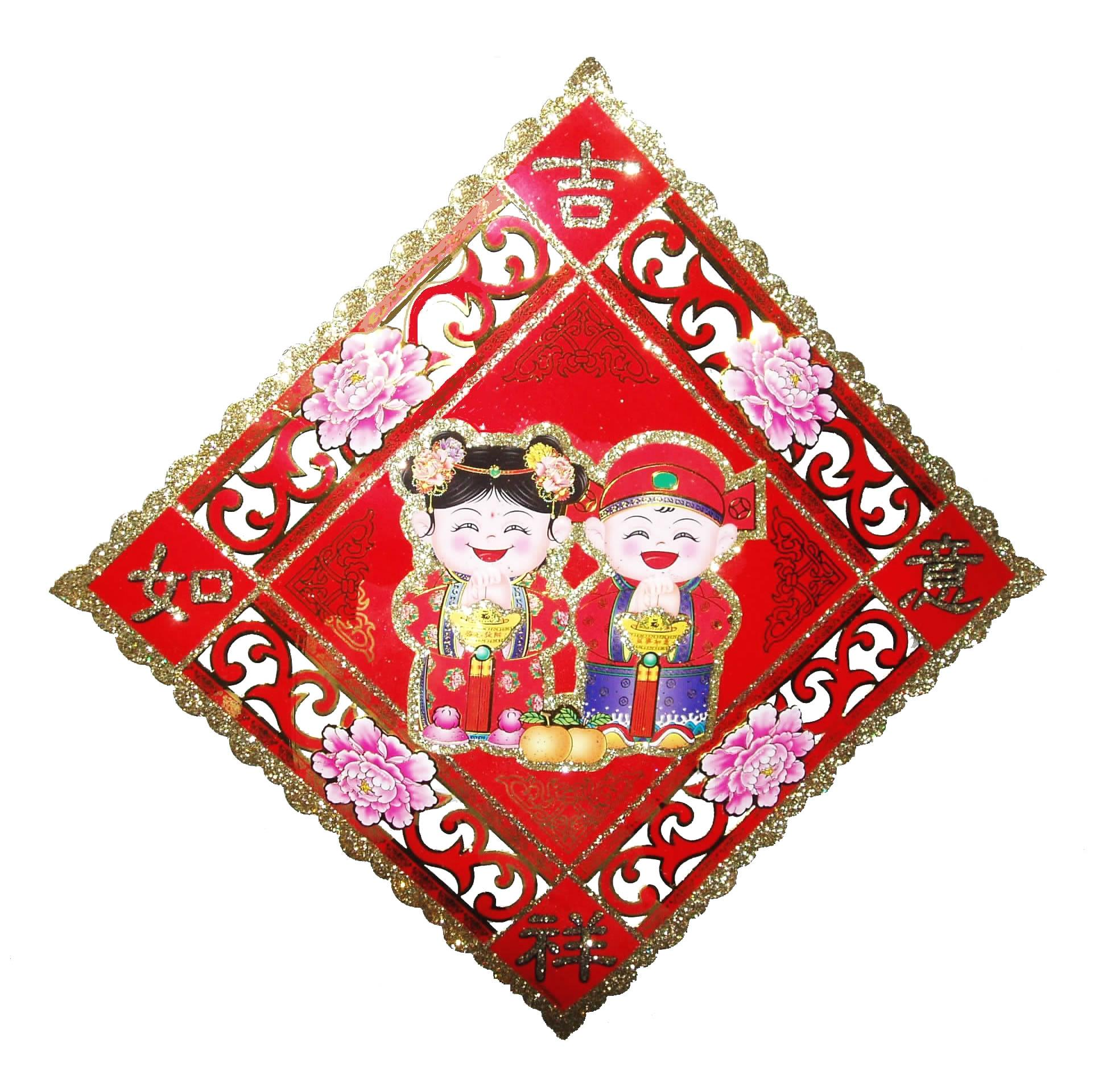 Greeting for Chinese New Year